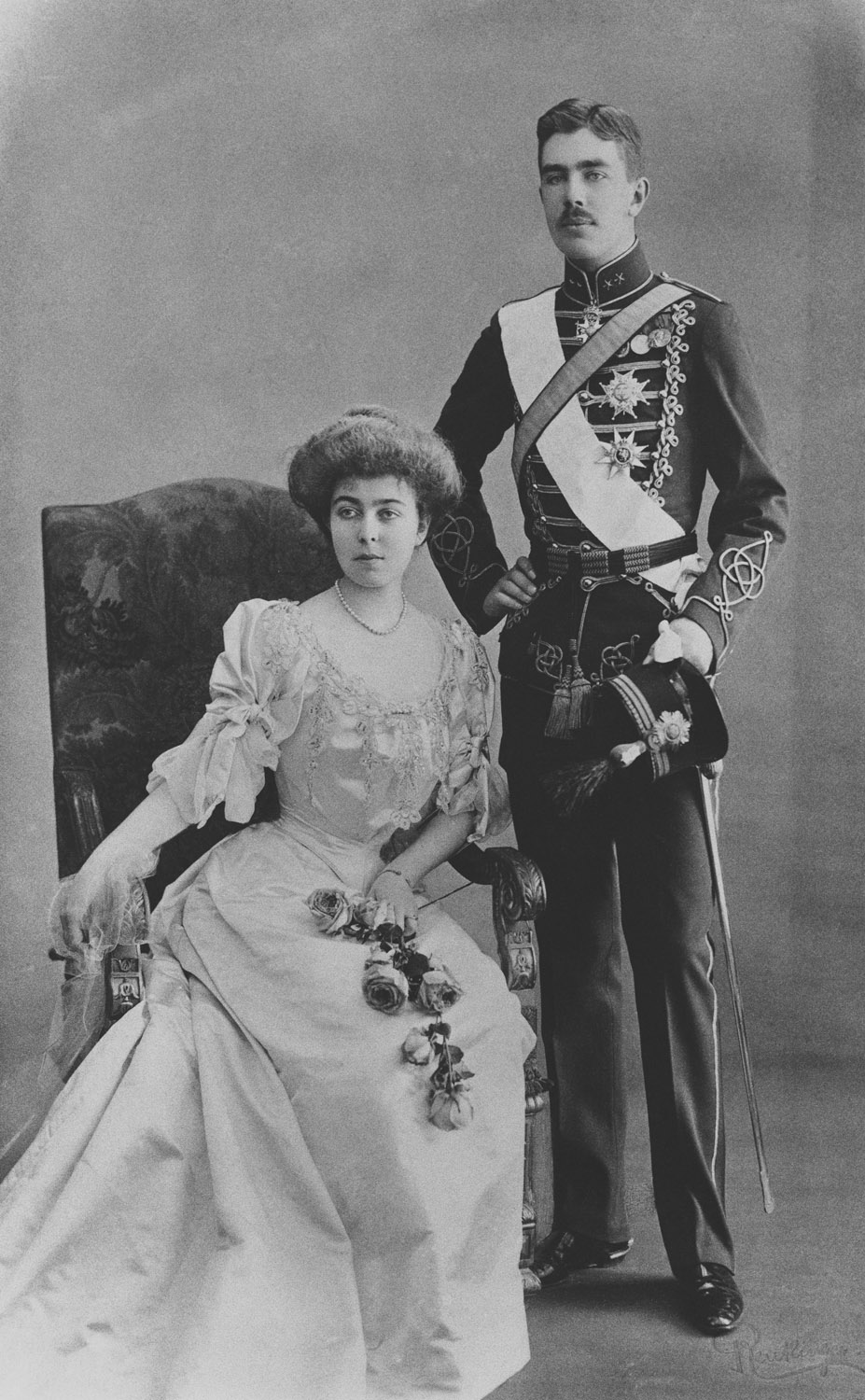 Crown Prince and Princess of Sweden, Gustaf Adolf and Margareta